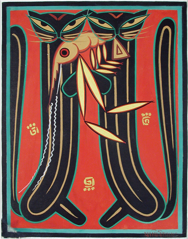 Display Artist: Jamini Roy Creation Date: ca. 1920 Display Dimensions: 21 31/32 in. x 17 5/16 in. (55.8 cm x 44 cm) Credit Line: Edwin Binney 3rd Collection Accession Number: 1990.1460 Collection: The San Diego Museum of Art